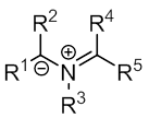 Azomethine ylide